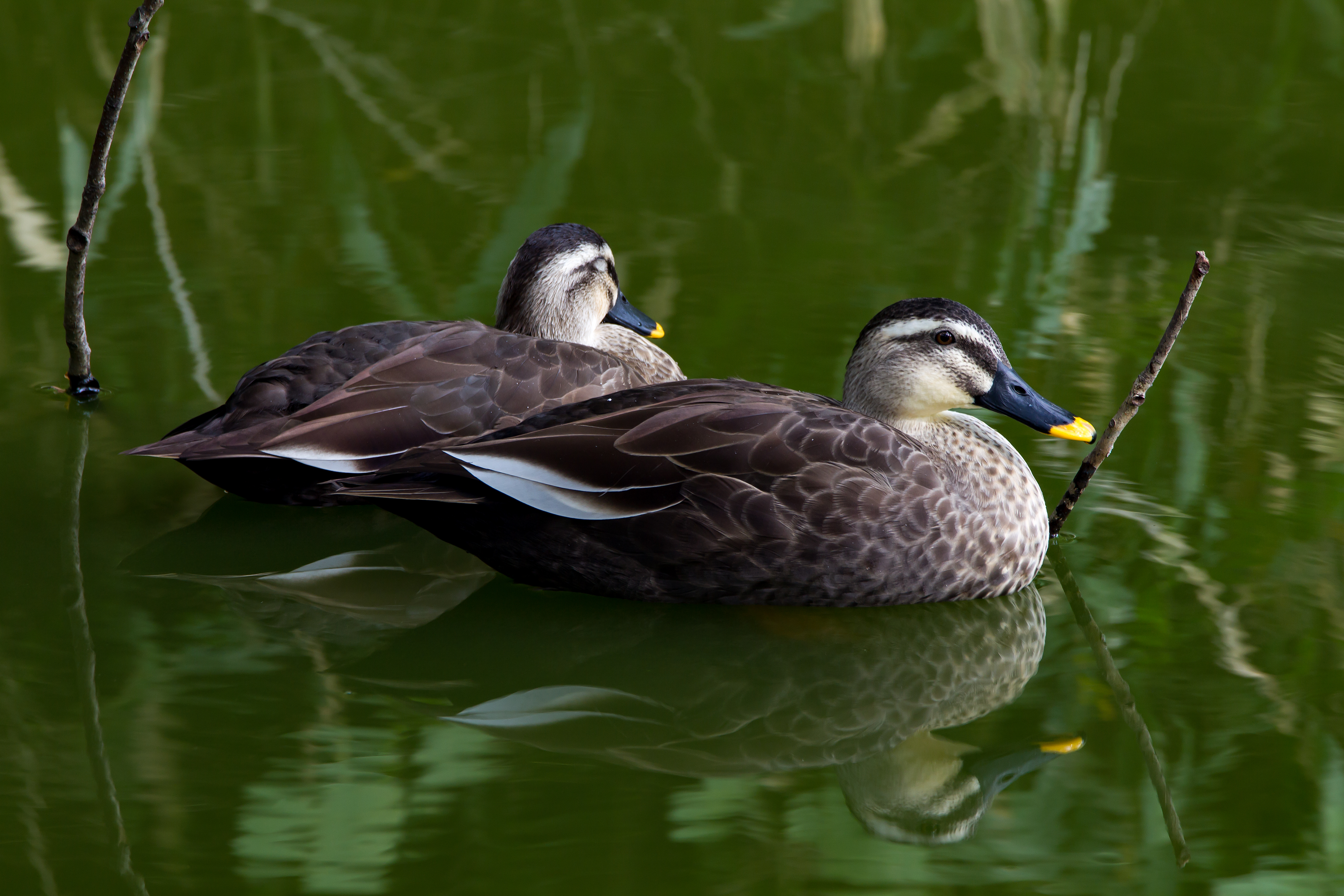 Eastern Spot-billed Duck, Tennōji Park, Osaka.